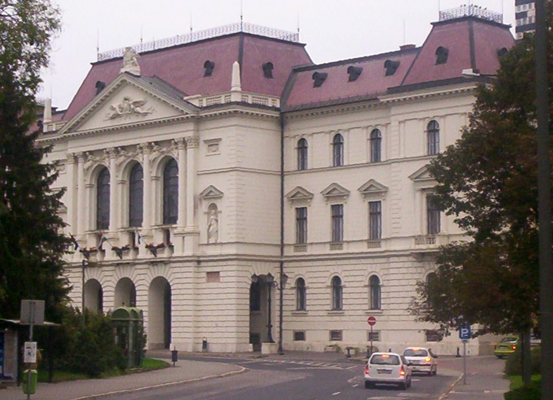 Description: County Hall, Veszprém